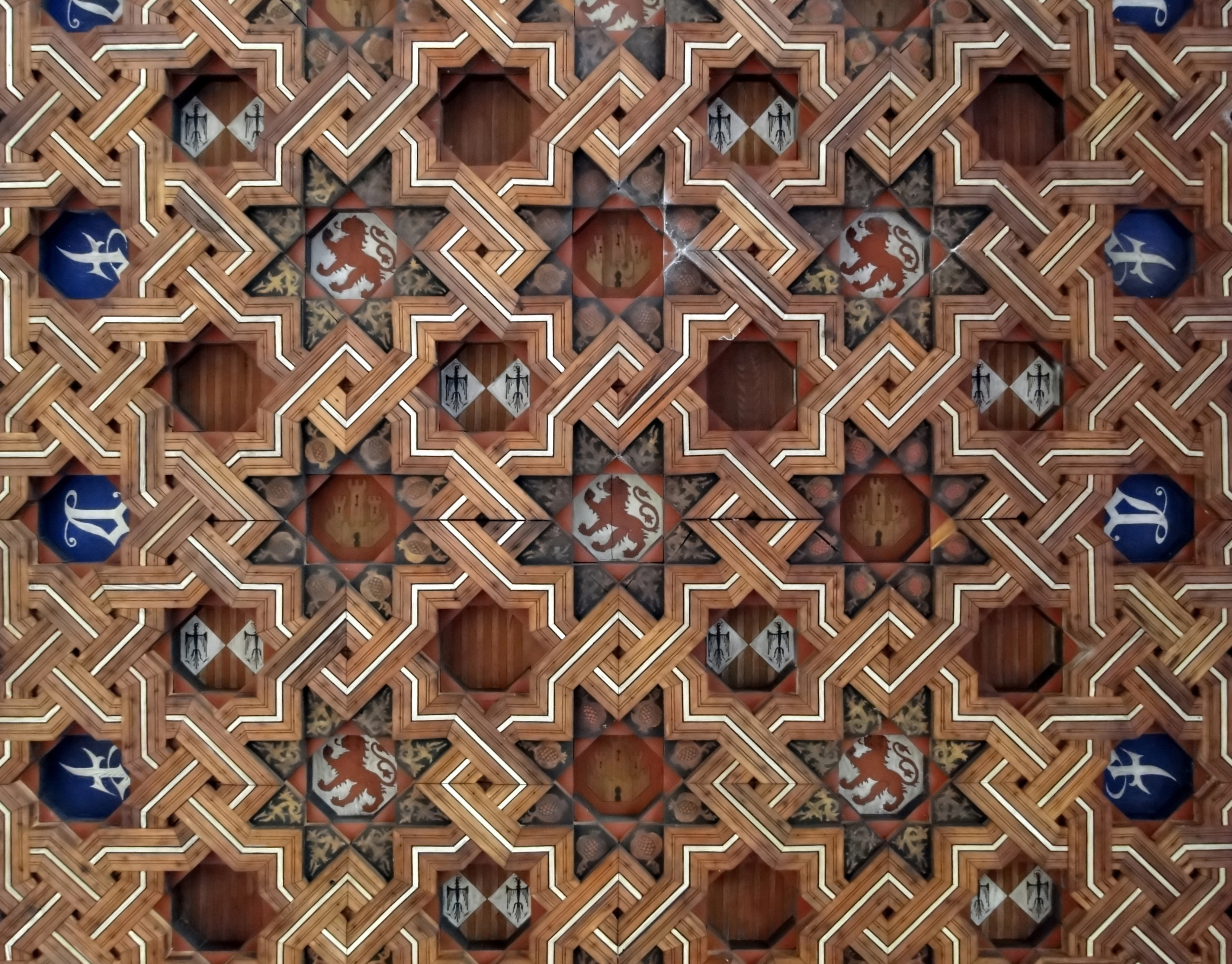 Mudéjar wooden ceiling in the cloister of the Monastery of San Juan de los Reyes, Toledo, Spain